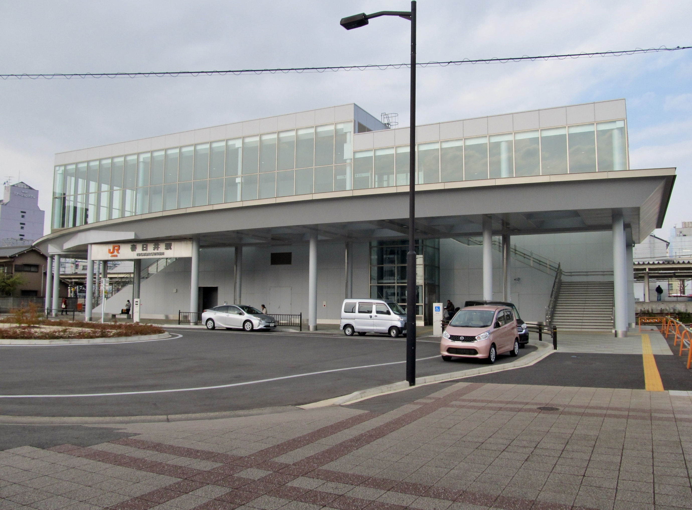 Central Japan Railway Chūō Main Line Kasugai Station South Gate